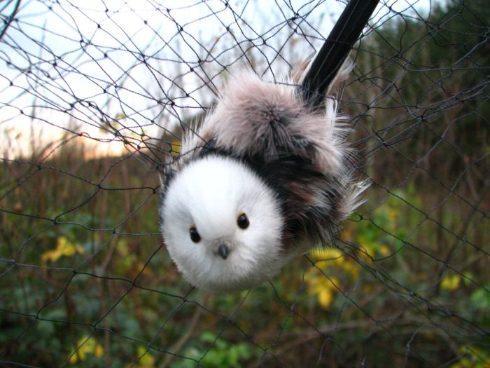 Long-tailed Tit (Aegithalos caudatus)